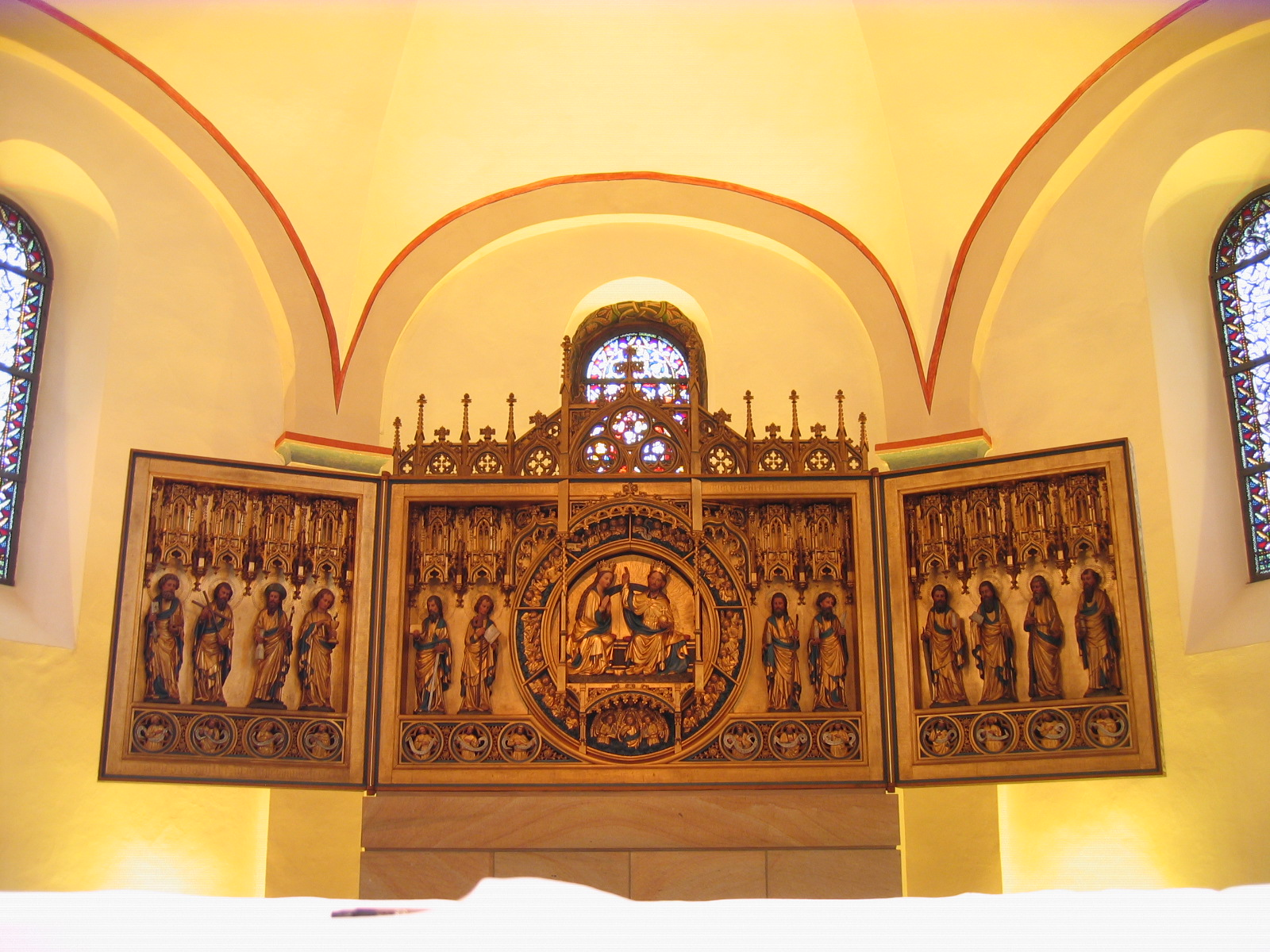 in Herford, District of Herford, North Rhine-Westphalia, Germany.